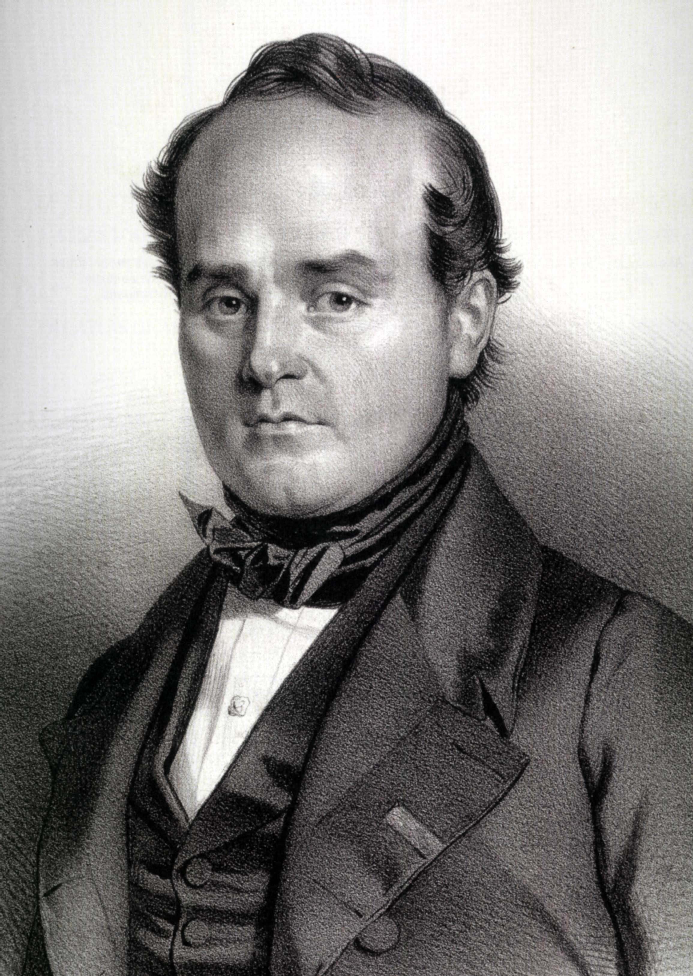 French physician and anatomist Jean-Baptiste Marc Bourgery (1797-1849)